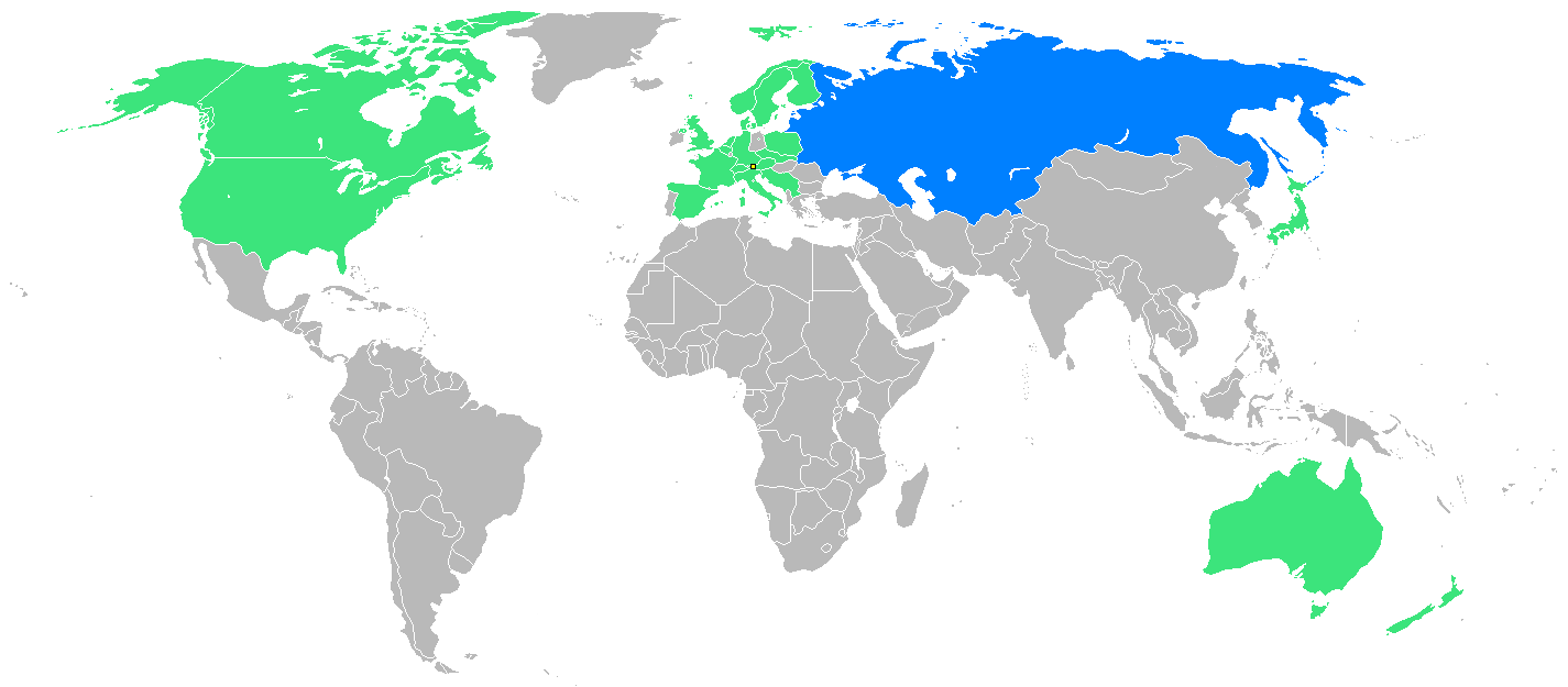 Countries which participated in the 1988 Winter Paralympics, derived from blank world map. Blue = Participating for the first time Green = Have previously participated. Yellow square is host city (Innsbruck).